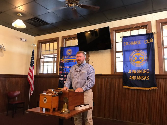 The Jonesboro Chapter of the Exchange Club celebrated its 70th year today! A great group of people who have worked to improve Jonesboro.